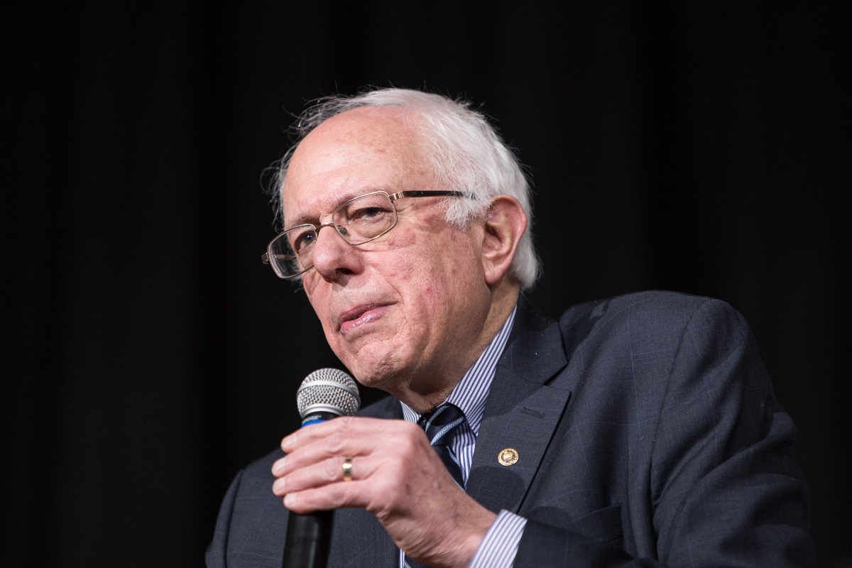 Photos taken for work of U.S. Senator and Presidential candidate Bernie Sanders speaking to a crowd of nearly 1,600 students at Roosevelt High School in Des Moines, IA on Thursday, January 28, 2016.